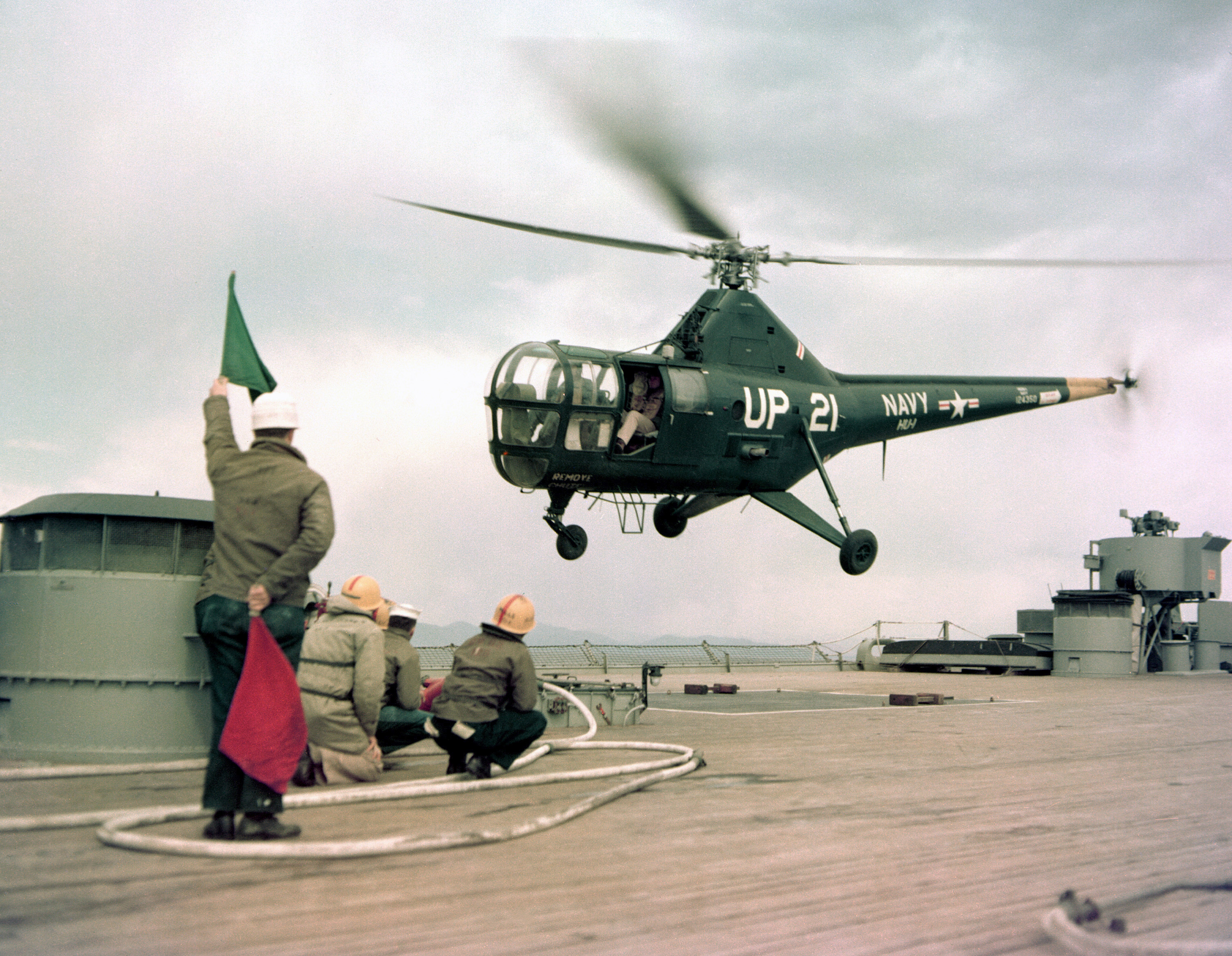 A U.S. Navy Sikorsky HO3S-1 helicopter (BuNo 124350) of Helicopter Utility Squadron 1 (HU-1) "Pacific Fleet Angels" takes off from the afterdeck of the battleship USS New Jersey (BB-62) off Korea on 14 April 1953. The upraised green flag signifies that the pilot has permission to take off. The crash crew, in yellow helmets, is standing by, with fire hoses ready.